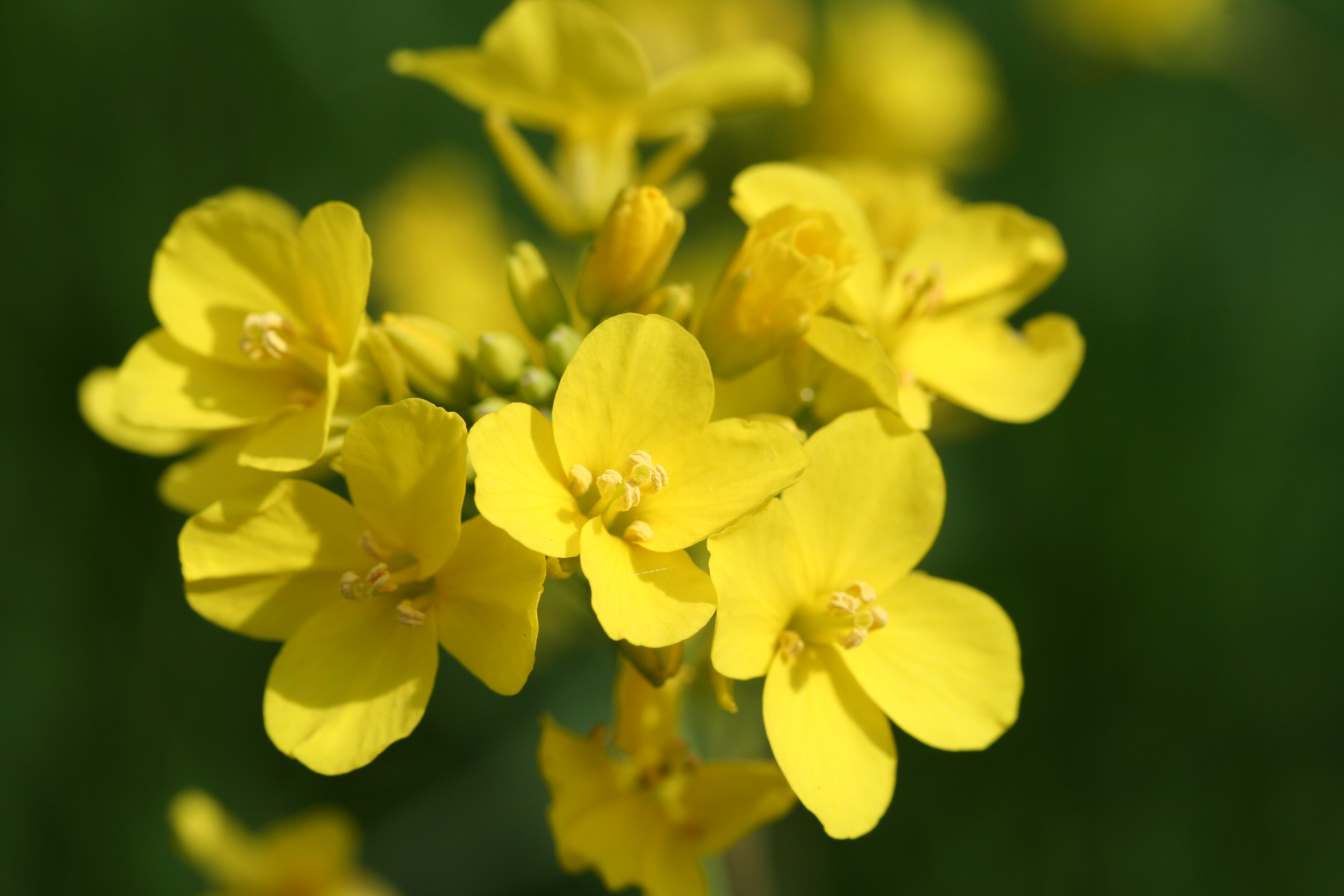 Brassica rapa 30 april 2006 IJmuiden, the Netherlands